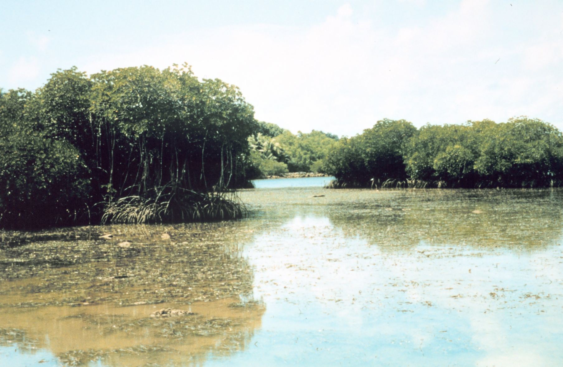 Mangrove lagoon near Yap.